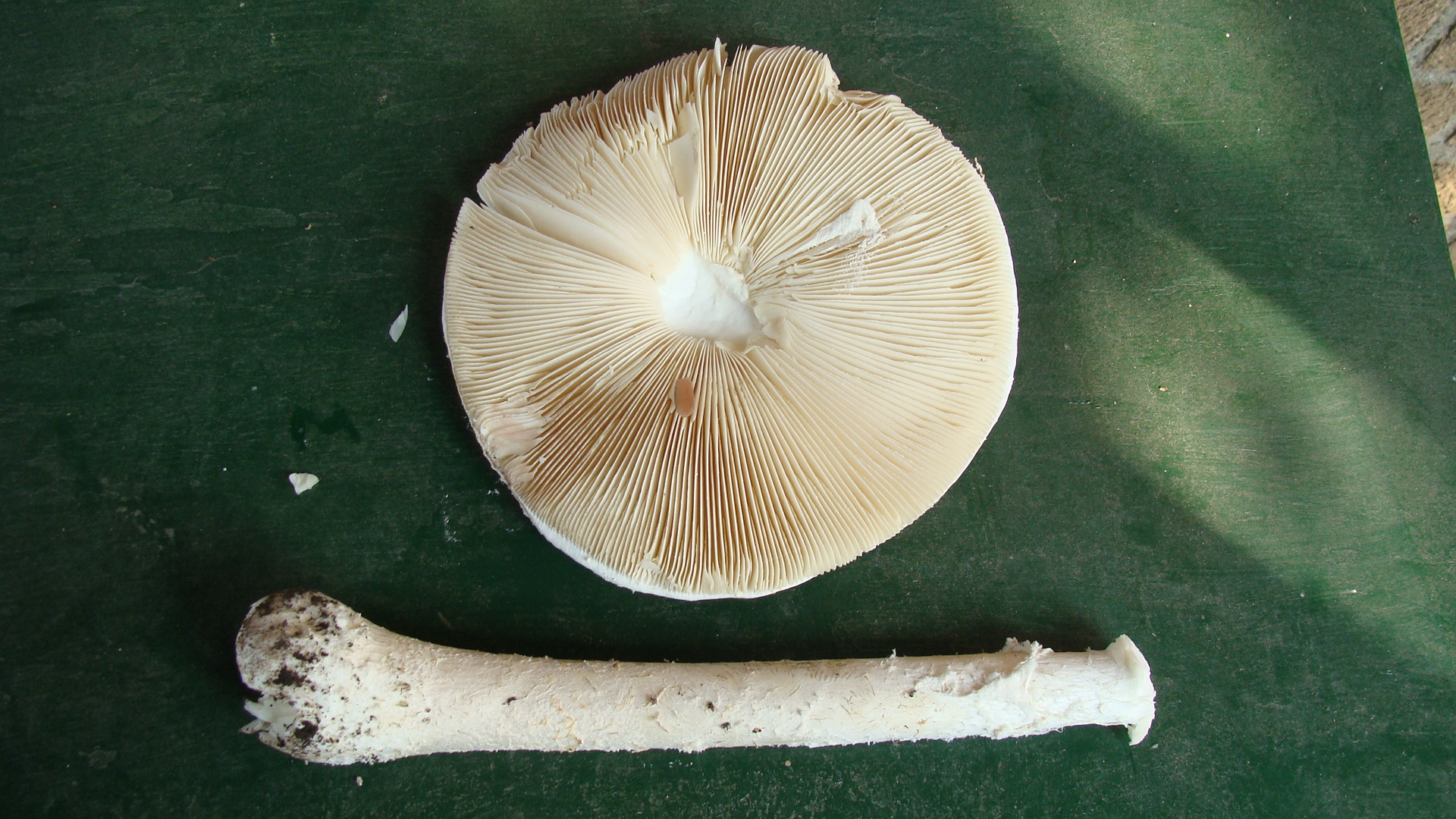 Stipe and cap of the mushroom Amanita thiersii Bas. Specimen collected in Tower Grove Park, Saint Louis, Missouri, USA.